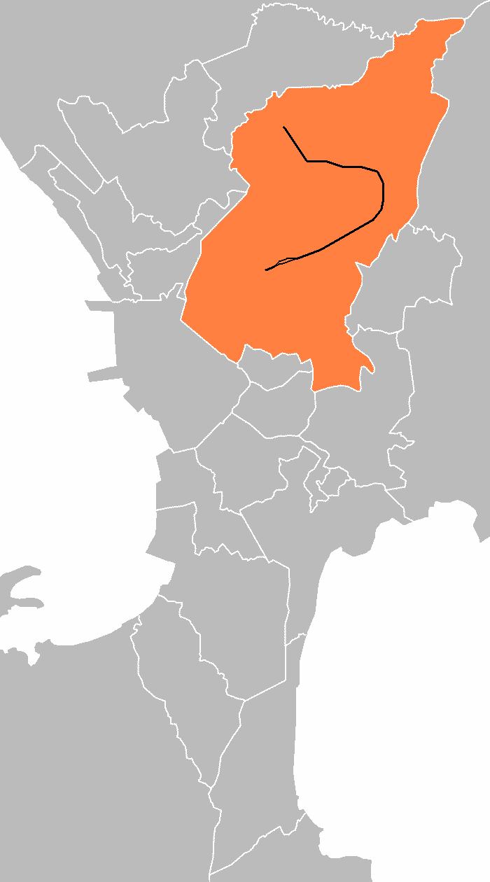 commonwealth route